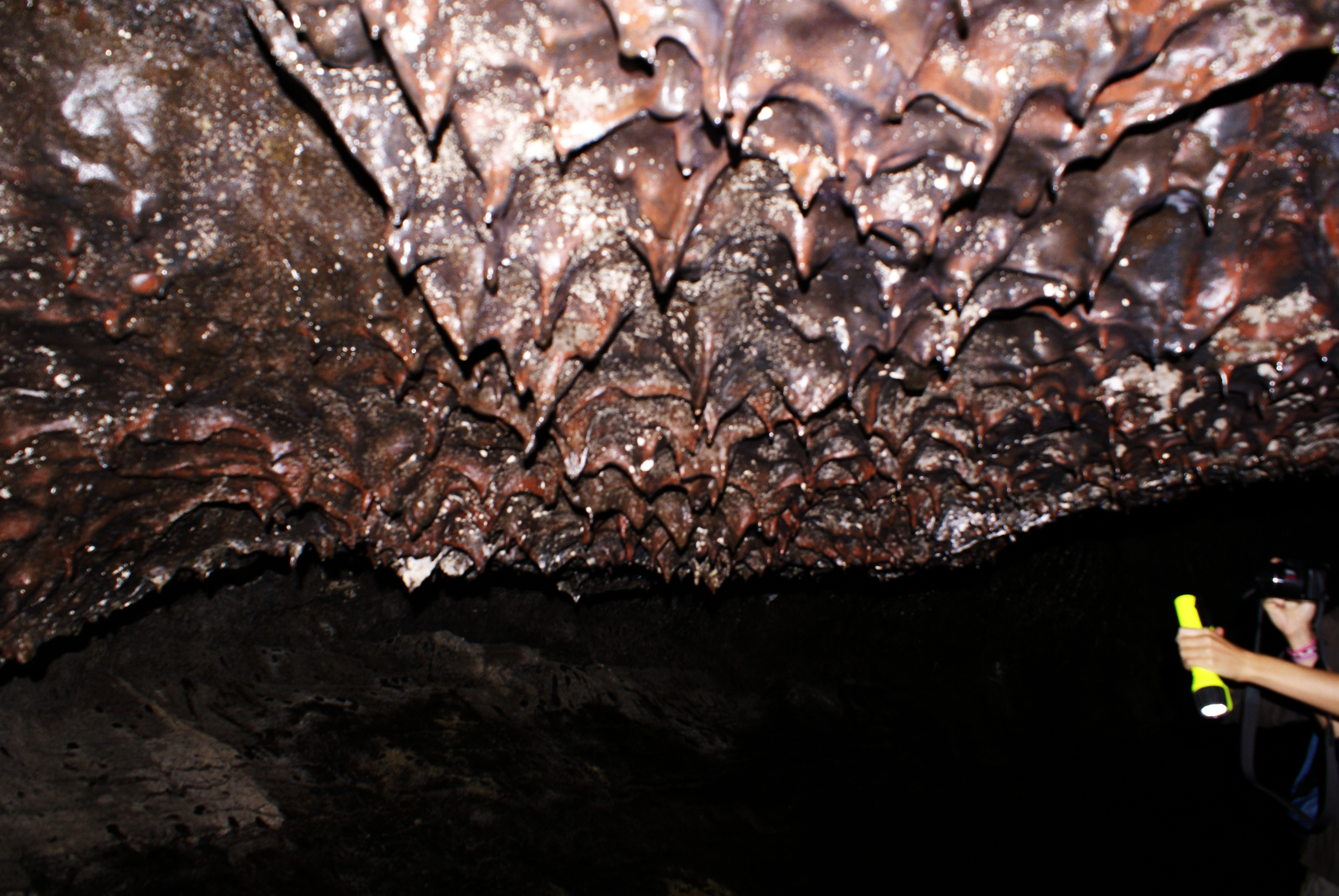 Lavic stalactites in the Gruta das Torres, Criação Velha, municipality of Madalena do Pico, Pico, Azores (Portugal)